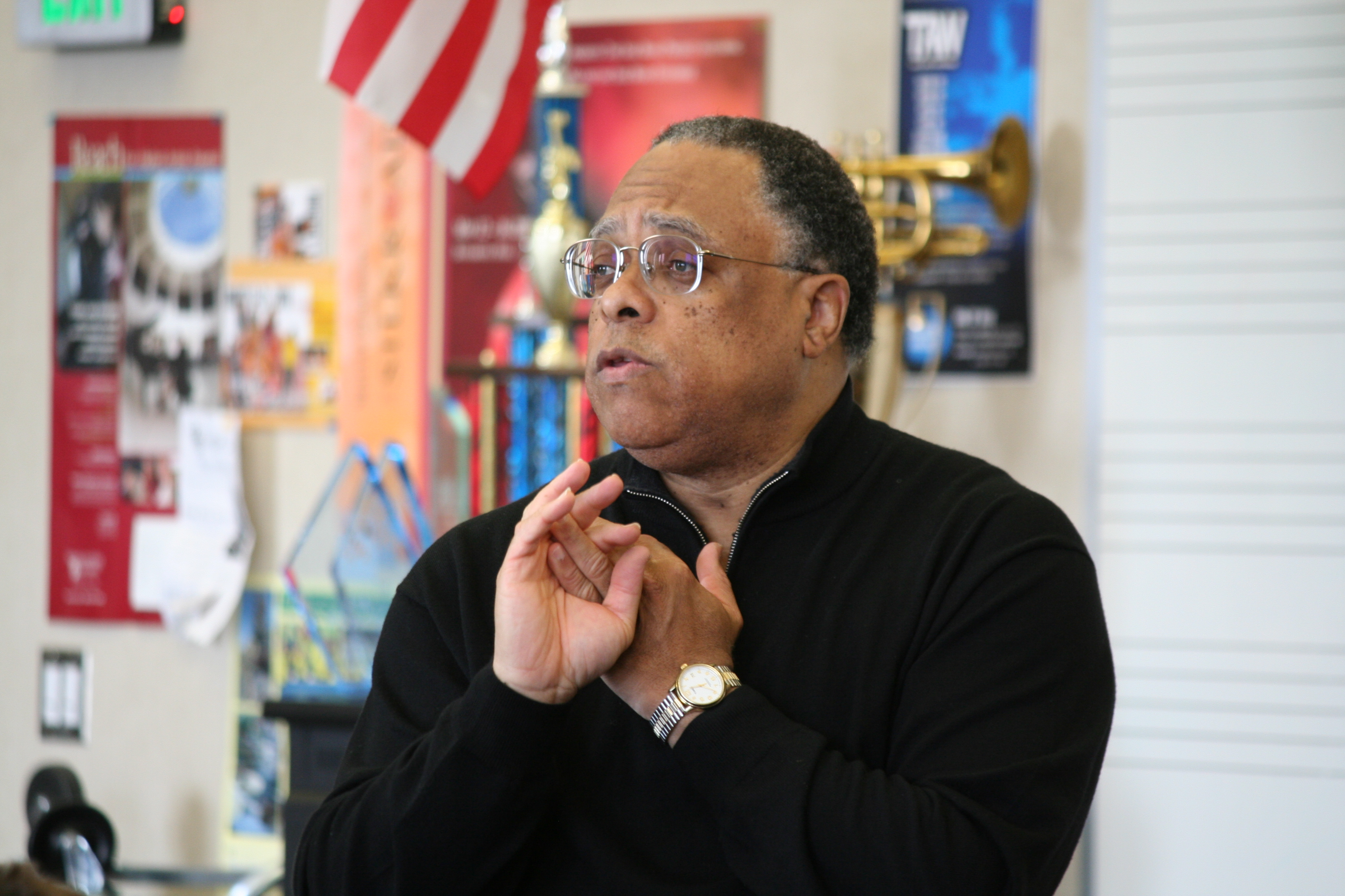 Acox in 2010